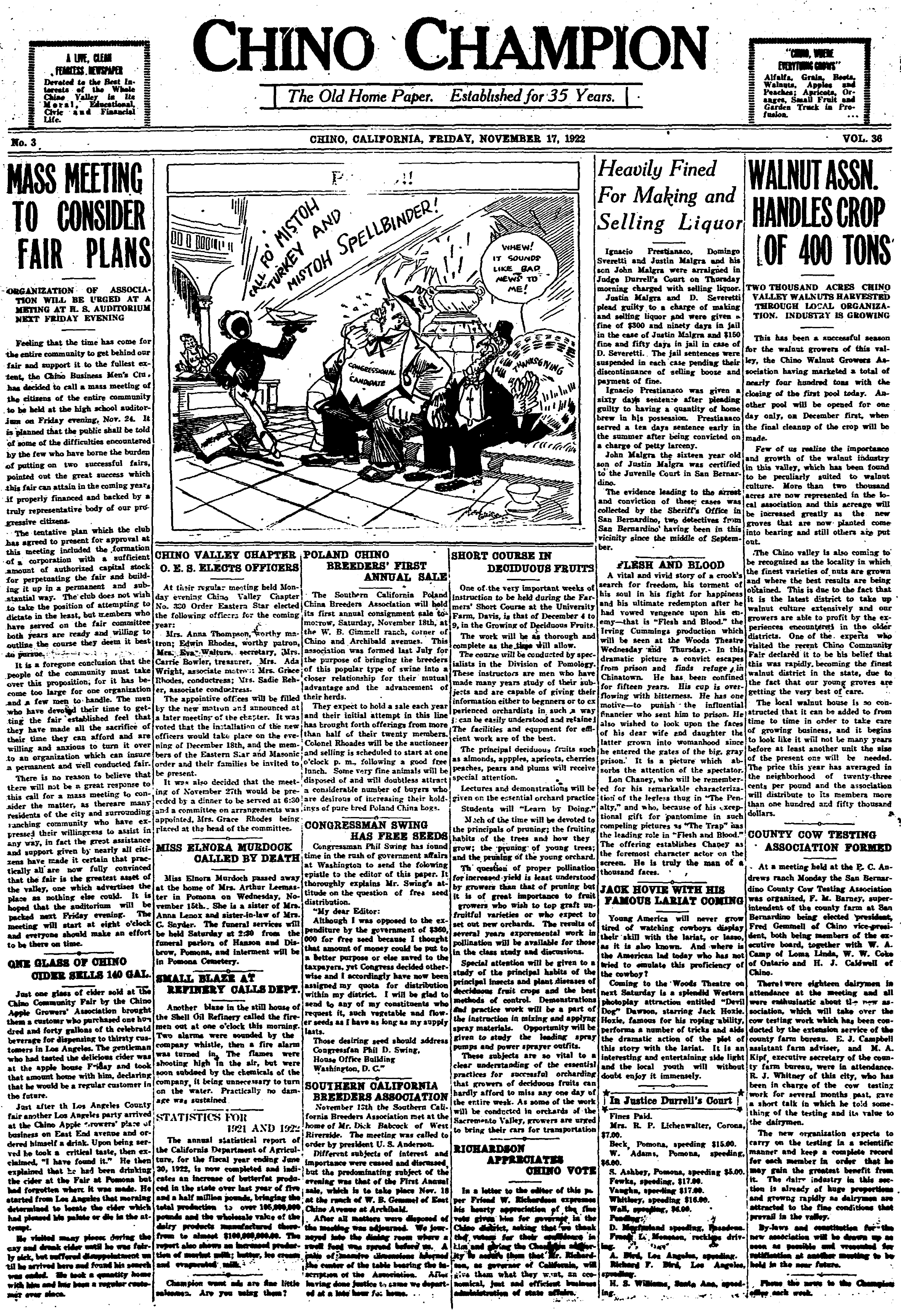 November 11, 1917, front page of Chino Champion (California). This would be the 35th anniversary edition of the first issue of the newspaper as the Chino Valley Champion.